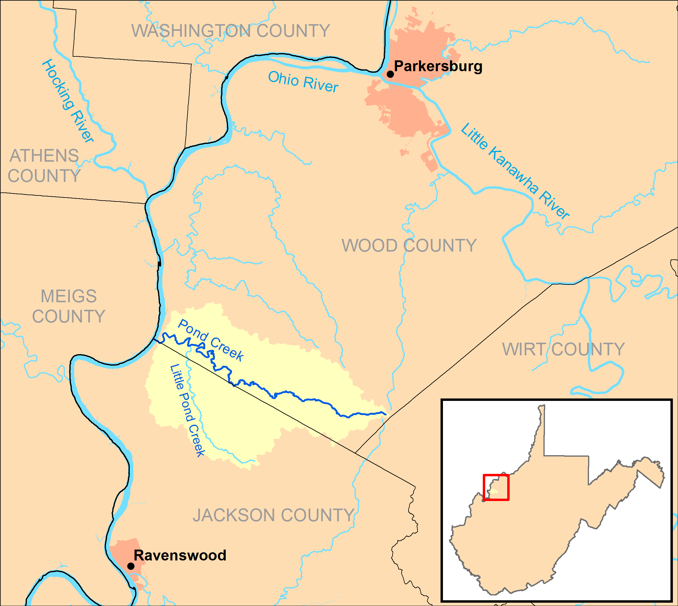 A map of Pond Creek and its watershed (USGS HUC 050302020403) in West Virginia.